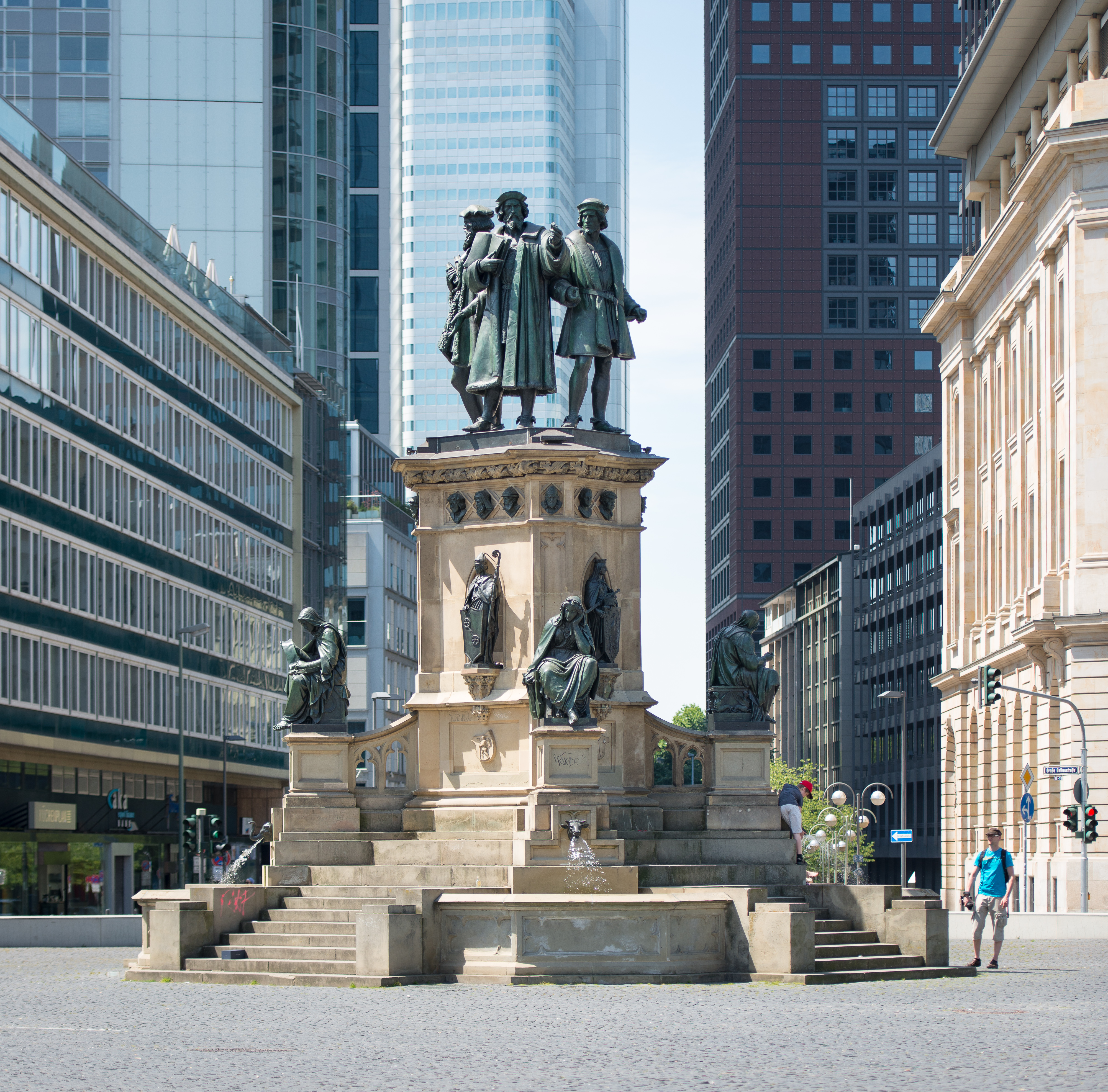 Frankfurt am Main, Gutenberg monument.